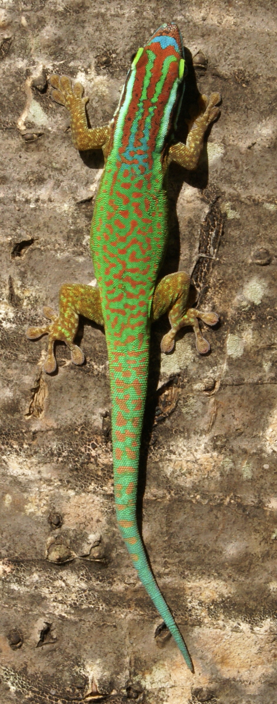 Phelsuma inexpectata in wild on Pandanus utilis